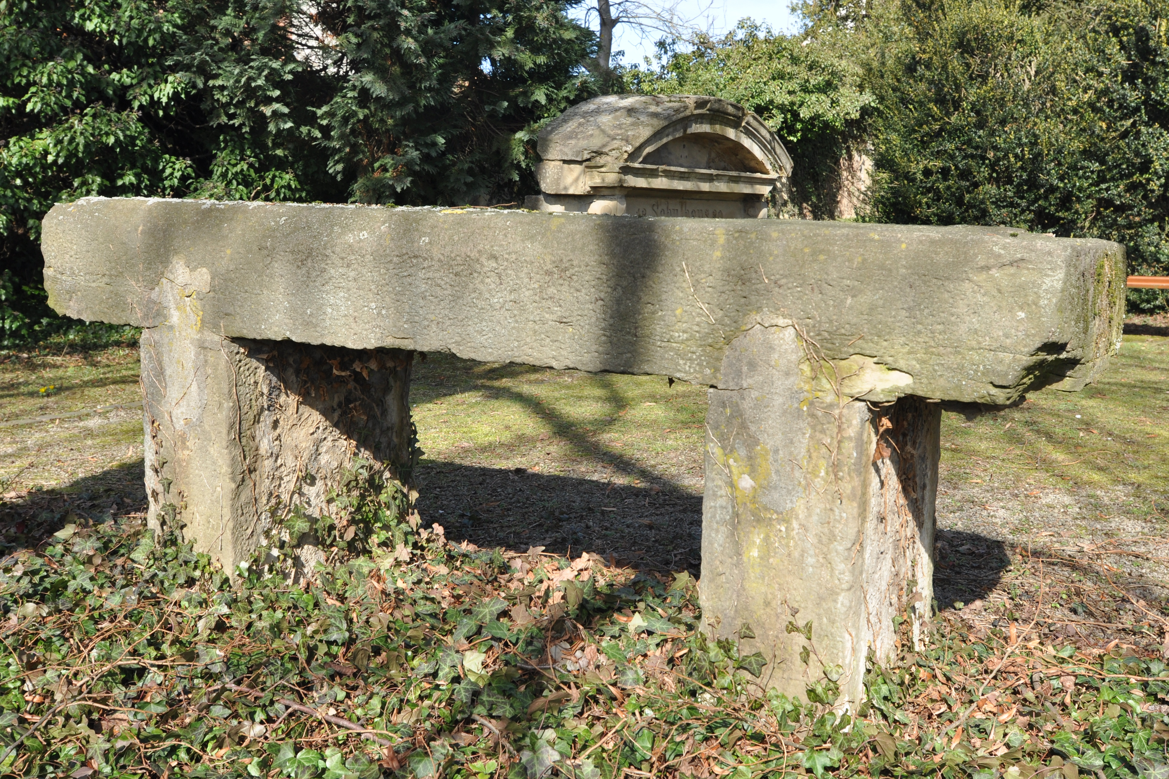 Old stone rest bench on the old cemetery of Kornwestheim